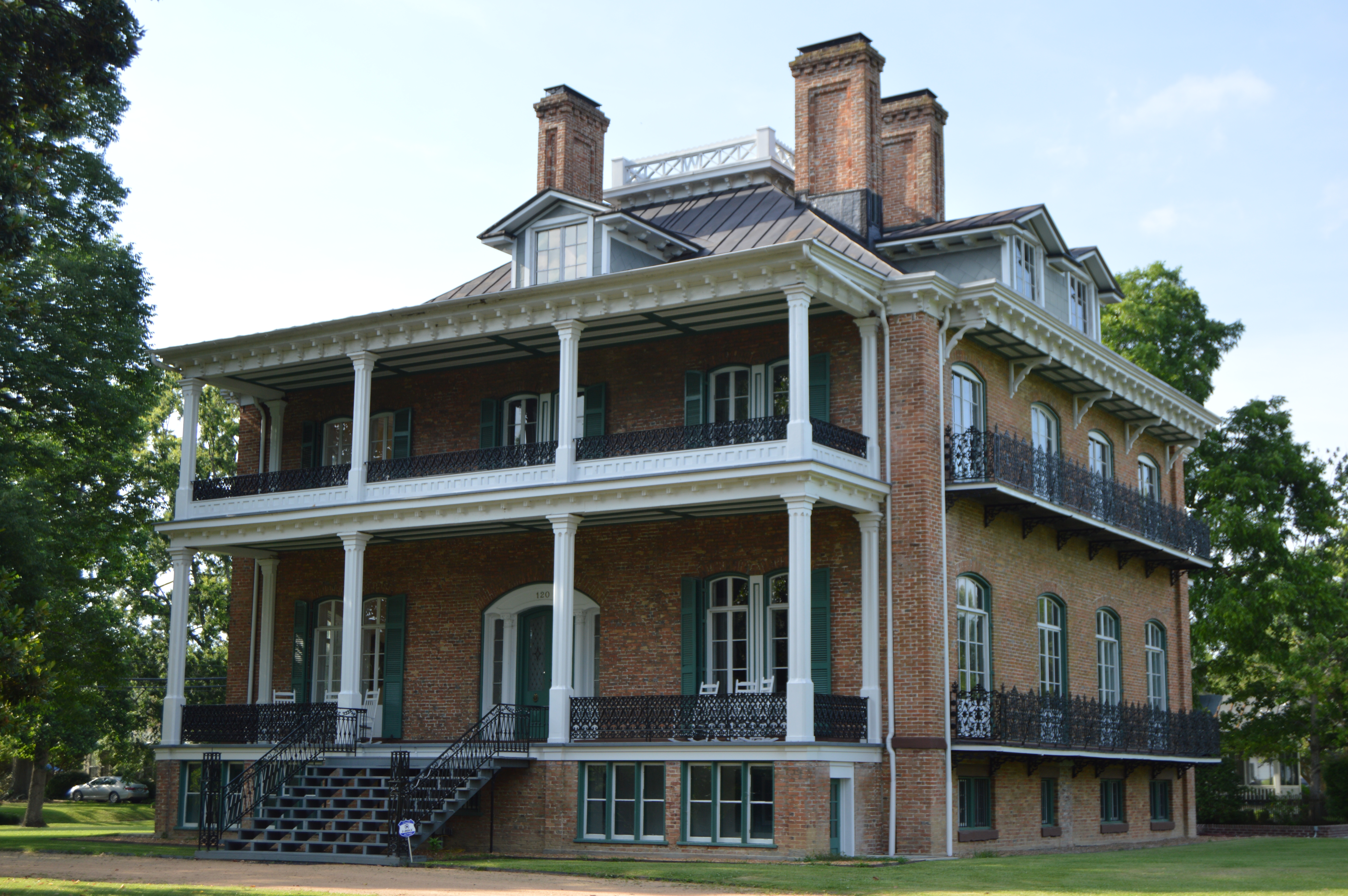 Front and eastern side of the Wessington House, located at 120 W. King Street in Edenton, North Carolina, United States. Built in 1851, it is listed on the National Register of Historic Places.